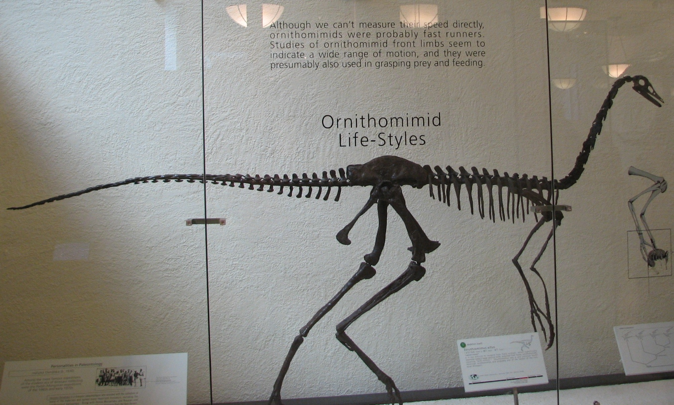 Struthiomimus altus (American Museum of Natural History, New York)